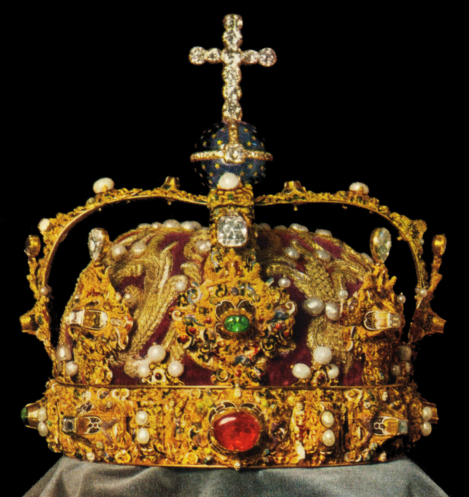 The royal crown of Sweden, made in 1561 by Cornelius ver Weiden for the coronation of Eric XIV